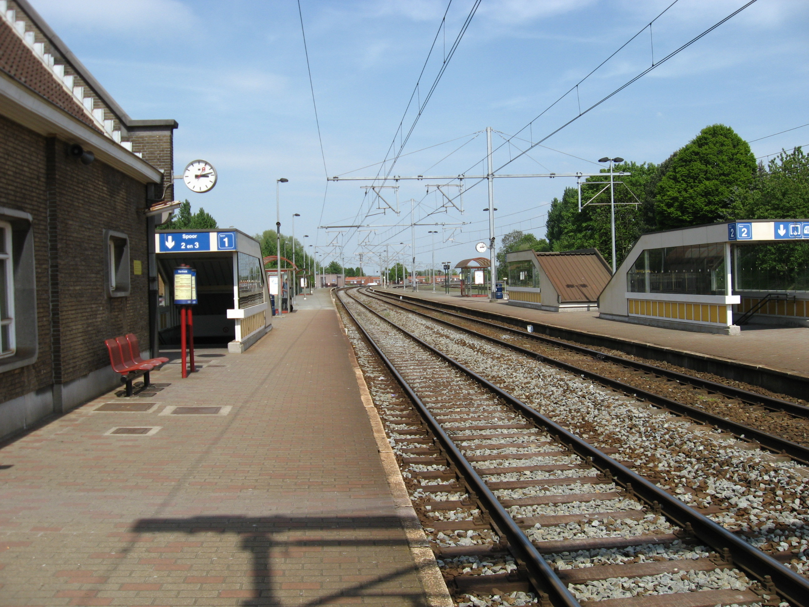 Diksmuide railway station looking in the direction of Ghent.